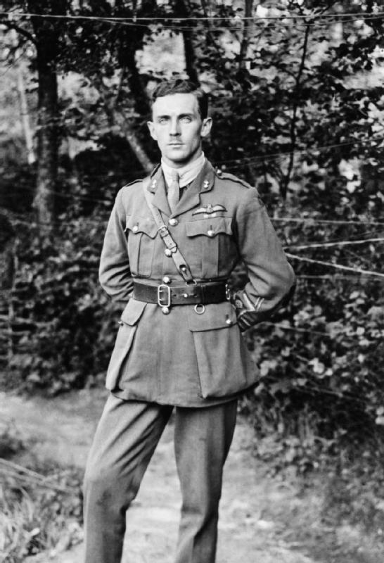 Photograph of Captain Ferdinand Maurice Felix West, British World War I Victoria Cross recipient.